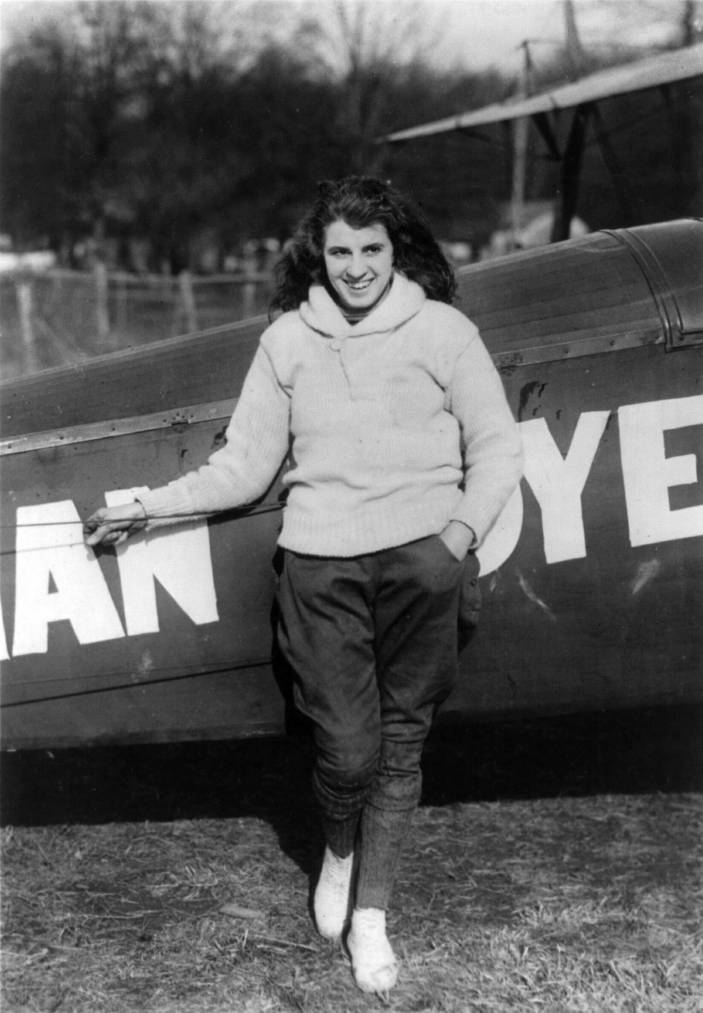 Lillian Boyer, American aerial stunt performer